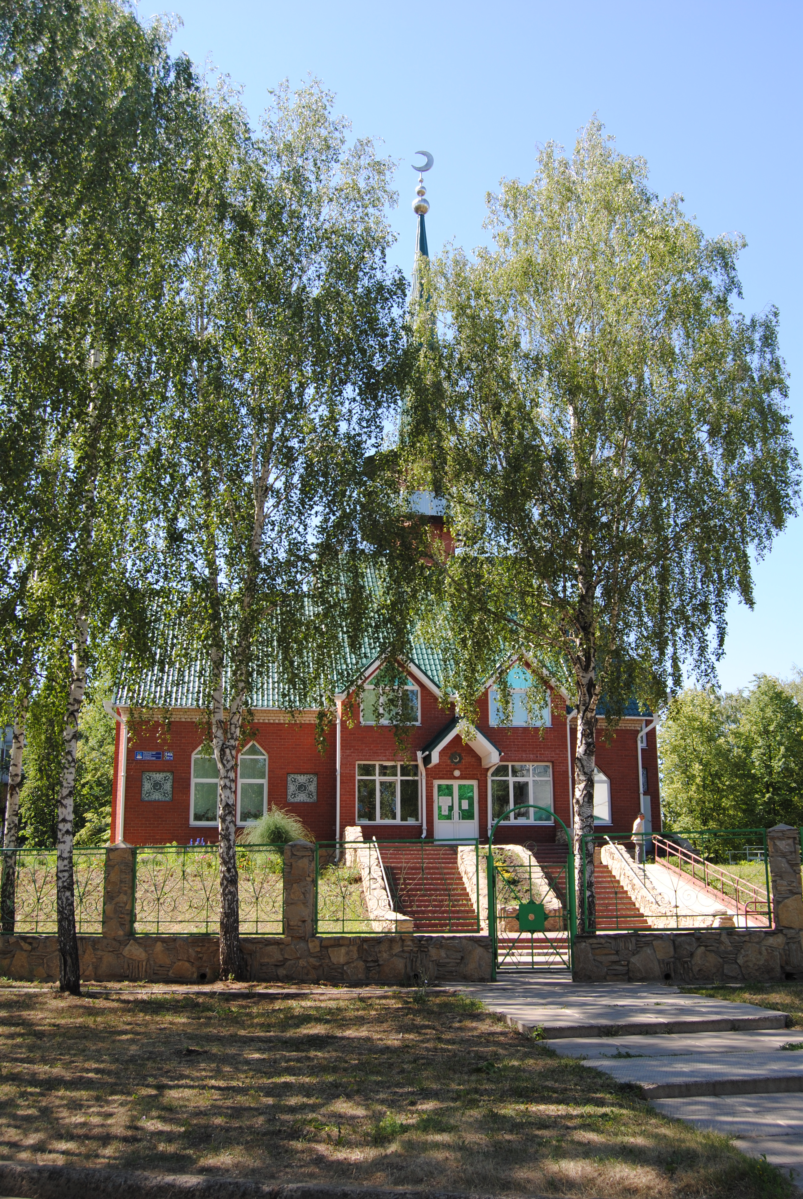 Mosque Tufan (Naberezhnye Chelny, Tatarstan).